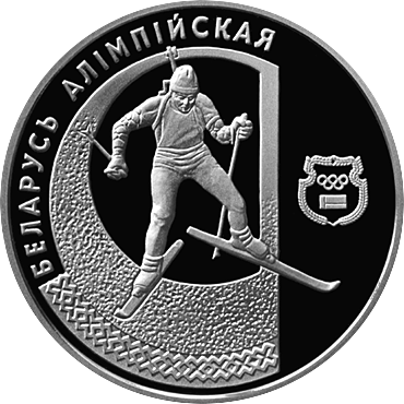 Sports. Commemorative coin dedicated to biathlon